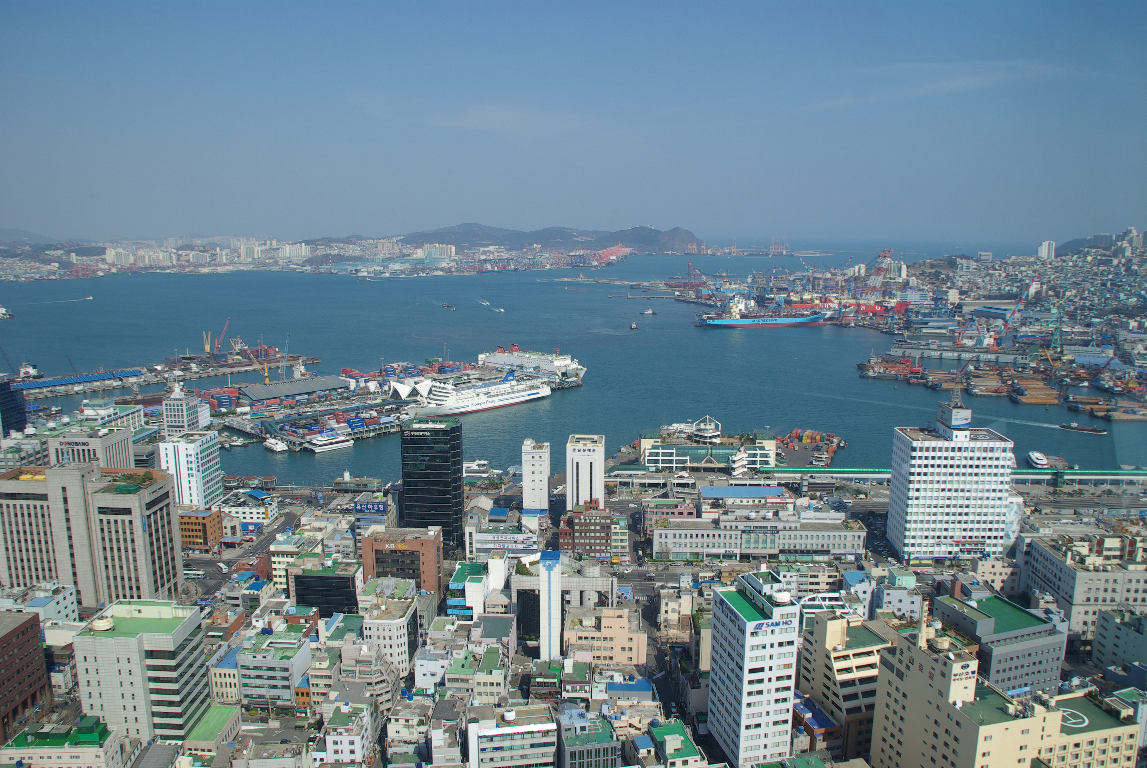 Thurs - Busan tower